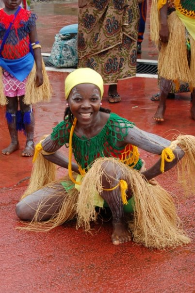 "This young Liberian woman was part of a troupe that performed traditional dances during Secretary of State Hillary Clinton's visit to Africa in August 2009" (Photo courtesy Meg Riggs)